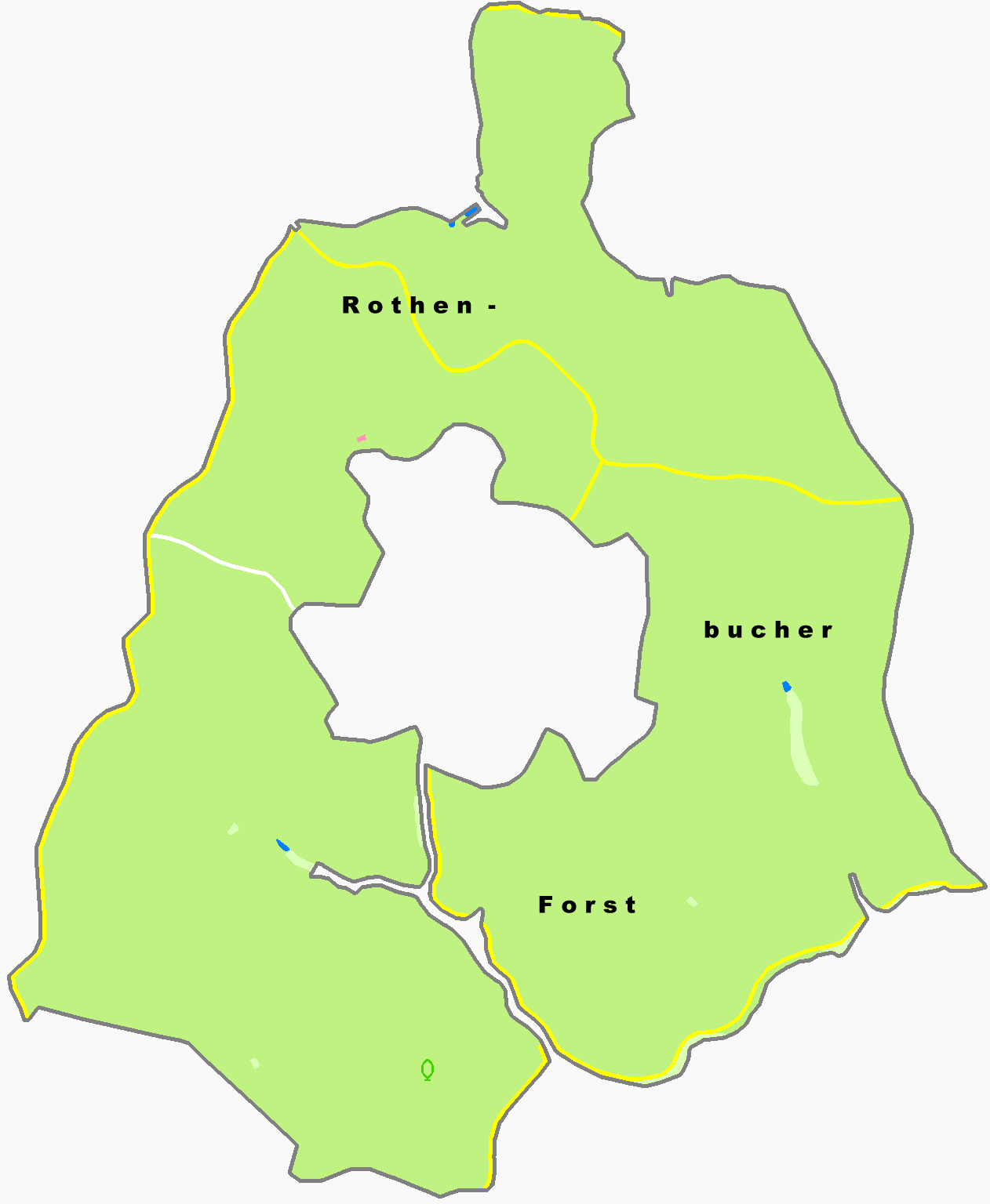 Unincorporated area Rothenbucher Forst Grassland, Meadow Settlement area Body of water Forest Municipal border Main street Site street Natural monument